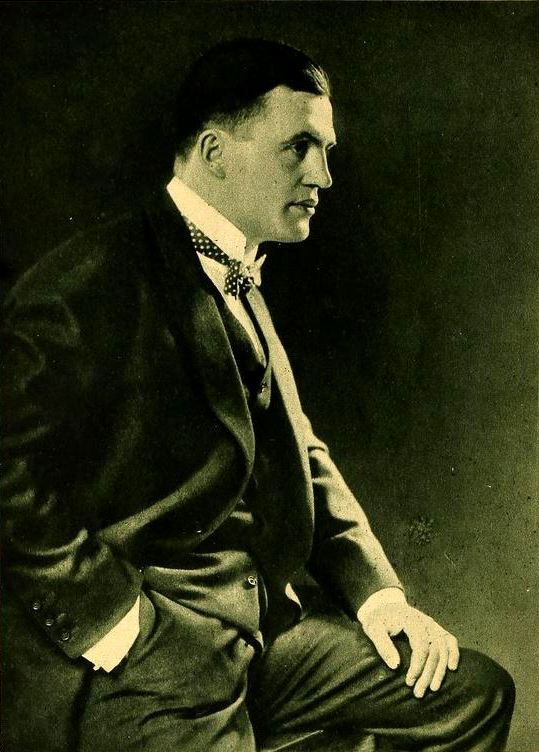 Canadian actor Rockliffe Fellowes (1883 – 1950) on page 32 of the April / May 1920 Motion Picture Magazine. The article on this page spelled his name as Rockcliffe Fellowes, which was used as his credit in some films.